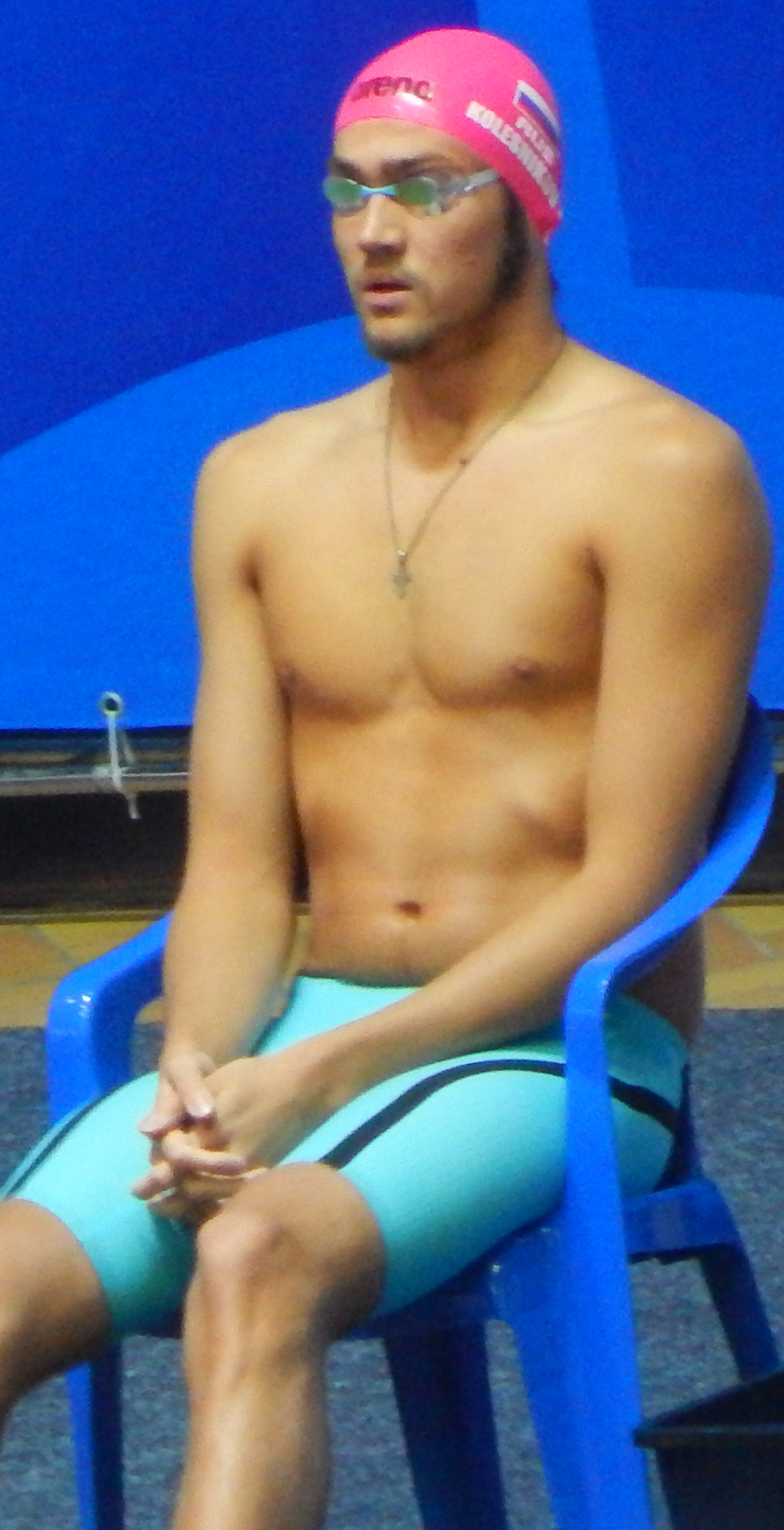 Kliment Kolesnikov at the 2018 Russian National Championships